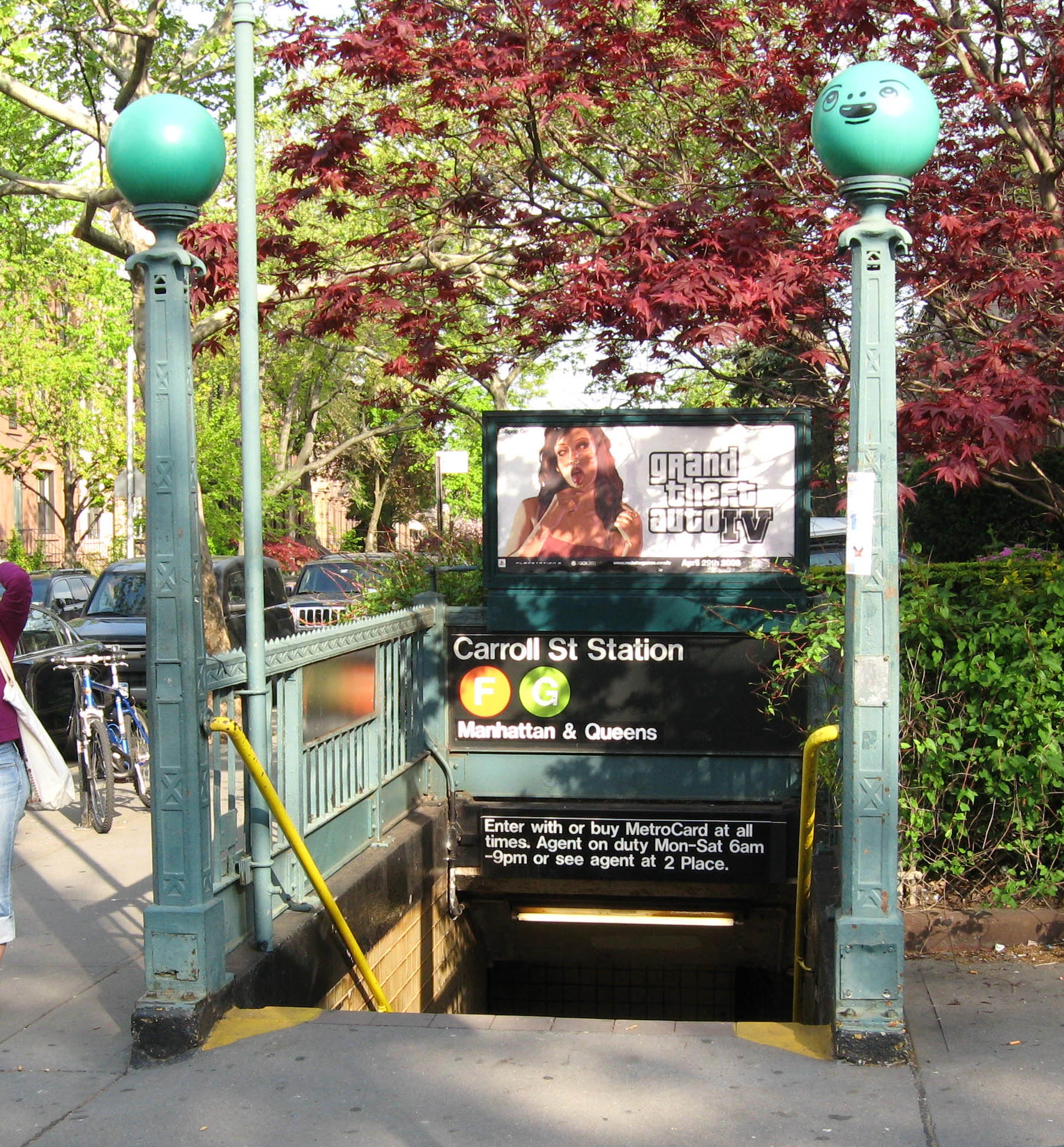 Carroll Street (IND Culver Line) station. Looking east on President Street from Smith Street on a sunny springtime afternoon.